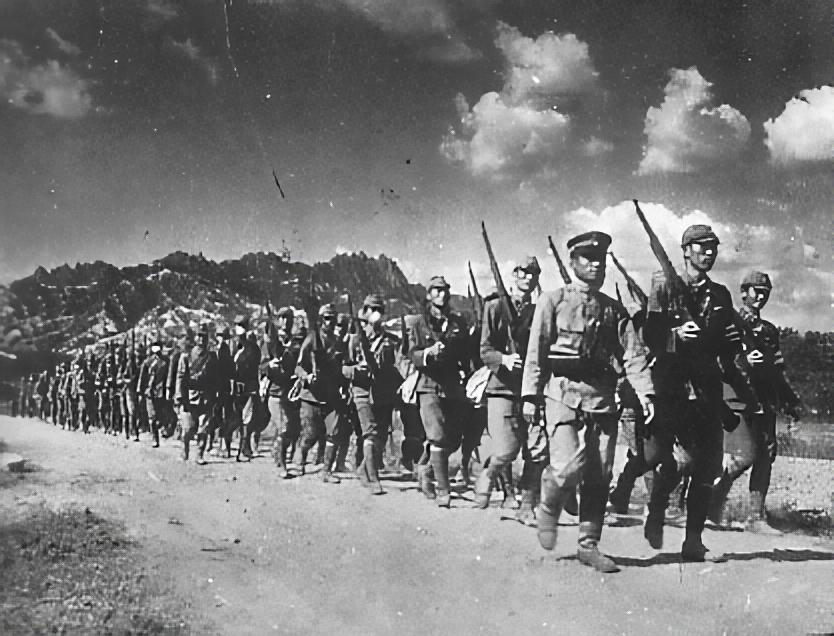 IJA(Imperial Japanese Army) Special Volunteers by Korean people